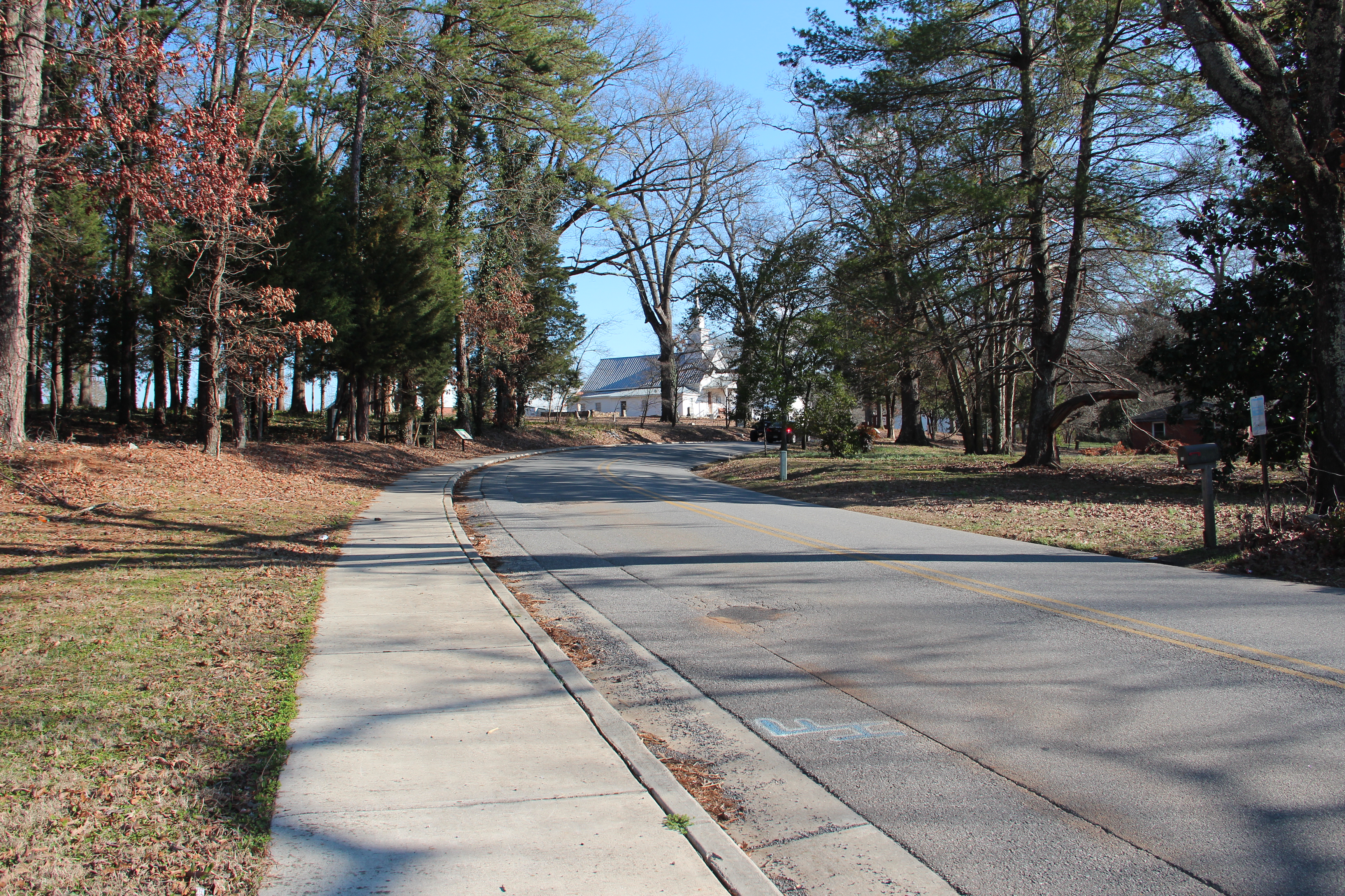 Covered Bridge Road in Euharlee, GA